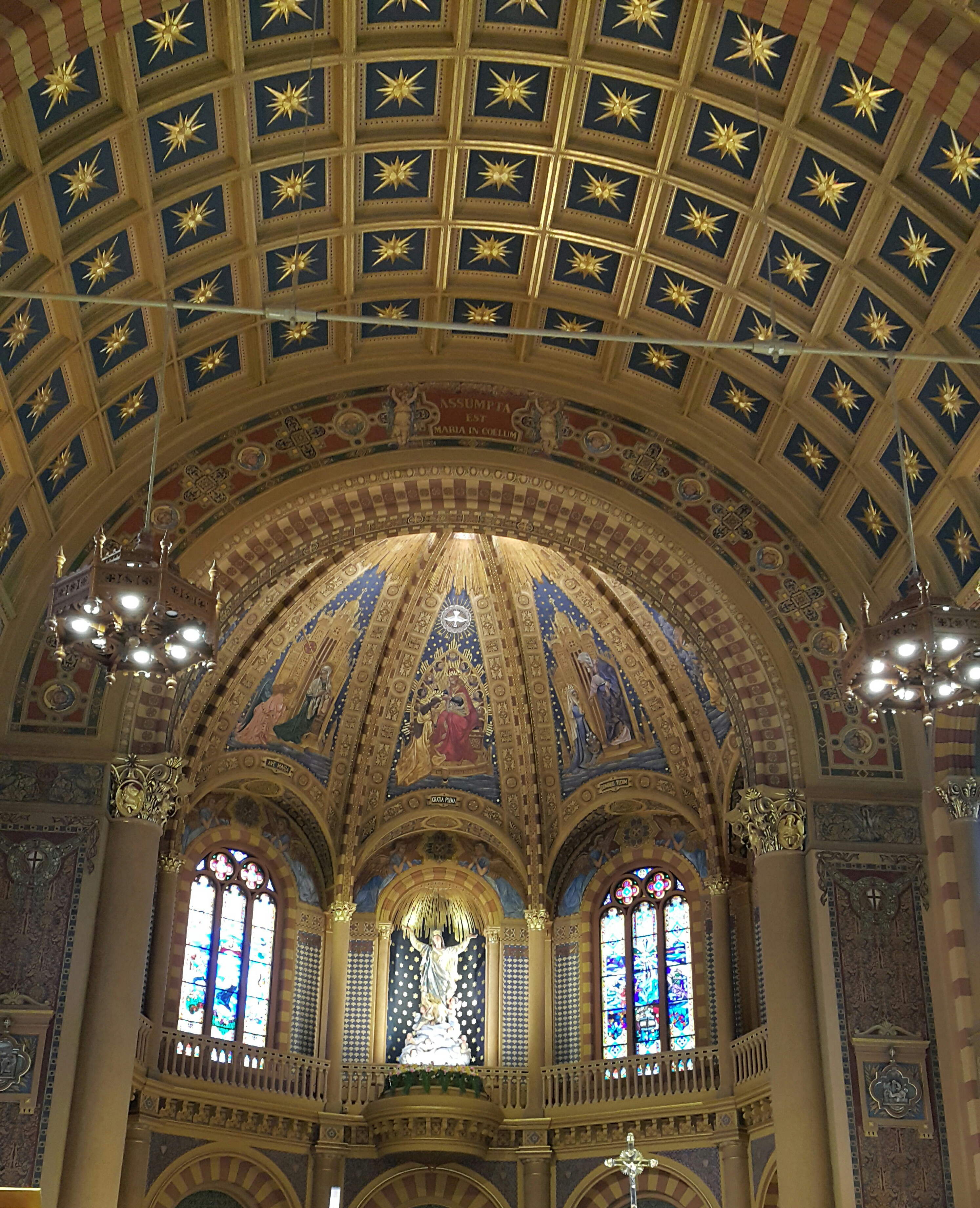 Mary of Assumption in Assumptiom Cathedral Bangkok